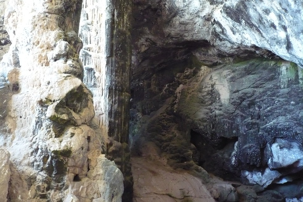 The cave of Antiparos in Greece.